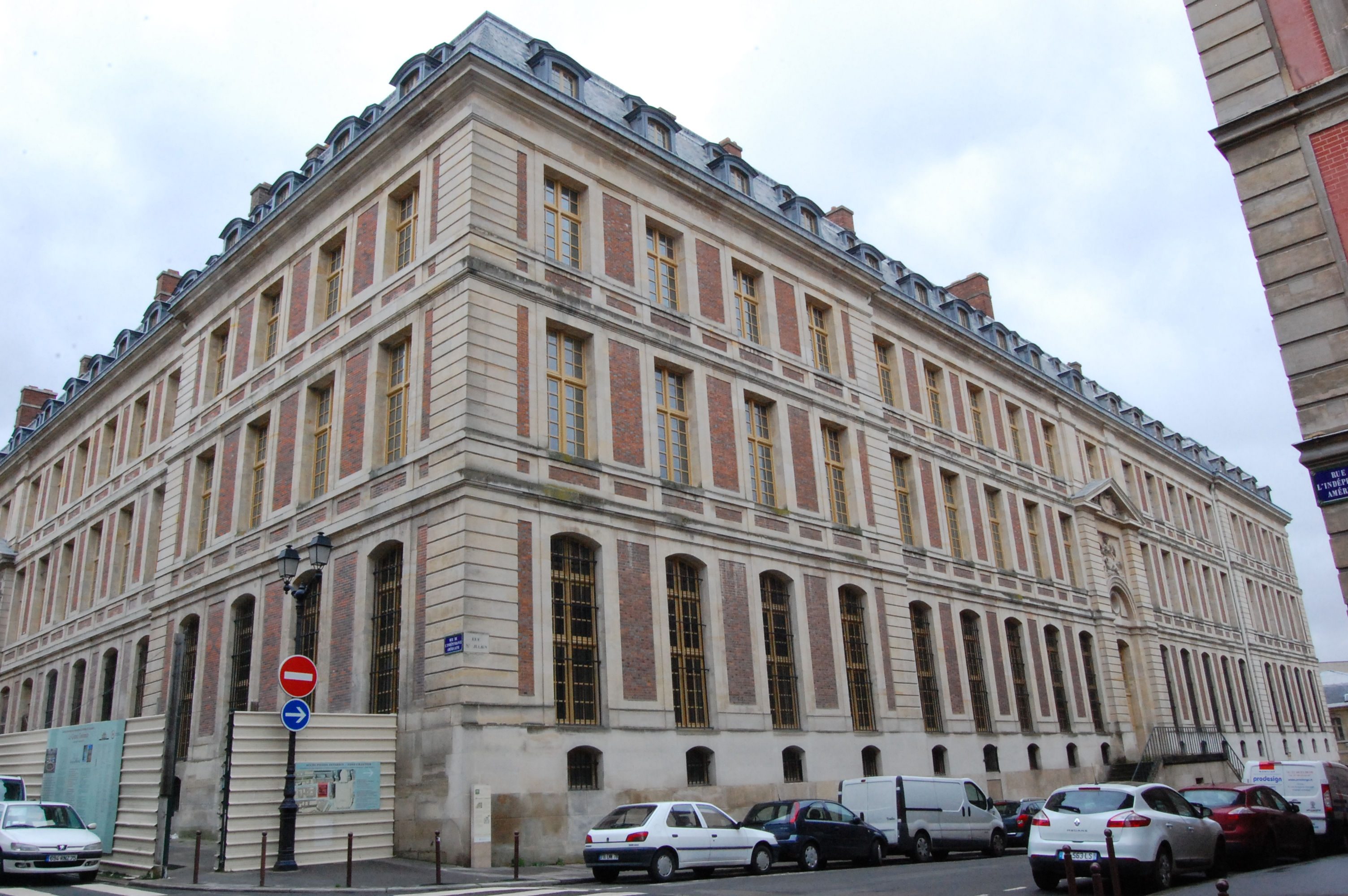 The Grand commun of the Château de Versailles, from the rue Saint Julien